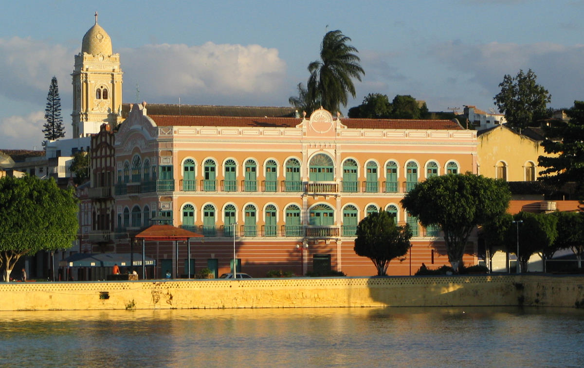 Scenic view at sunset over the lake in the center of Triunfo-PE to the theatre 'Cine Teatro Guarany'. The tower behind belongs to the church 'Igreja de Nossa Senhora das Dores'